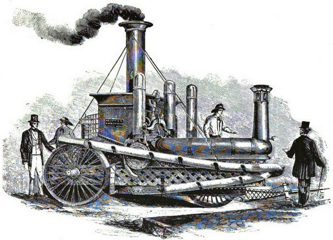 First successful steam fire engine, called Uncle Joe Ross.